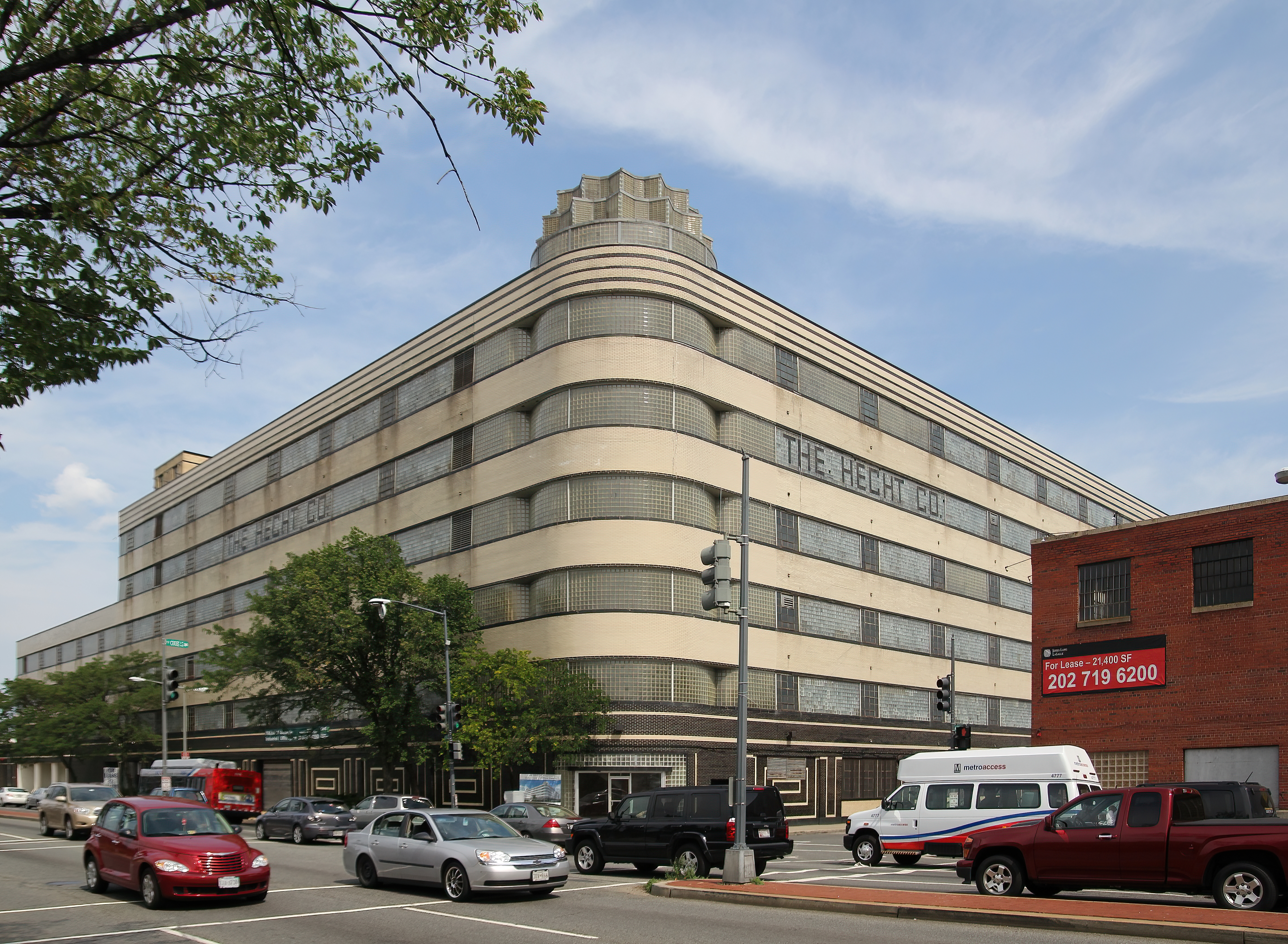 The old Hecht Company Warehouse located at 1401 New York Avenue, NE in the Ivy City neighborhood of Washington, D.C. It was designed by Abbott, Merkt & Co. in 1937 and is an example of Streamline Moderne architecture. In 1986, the building was placed on the National Register of Historic Places.